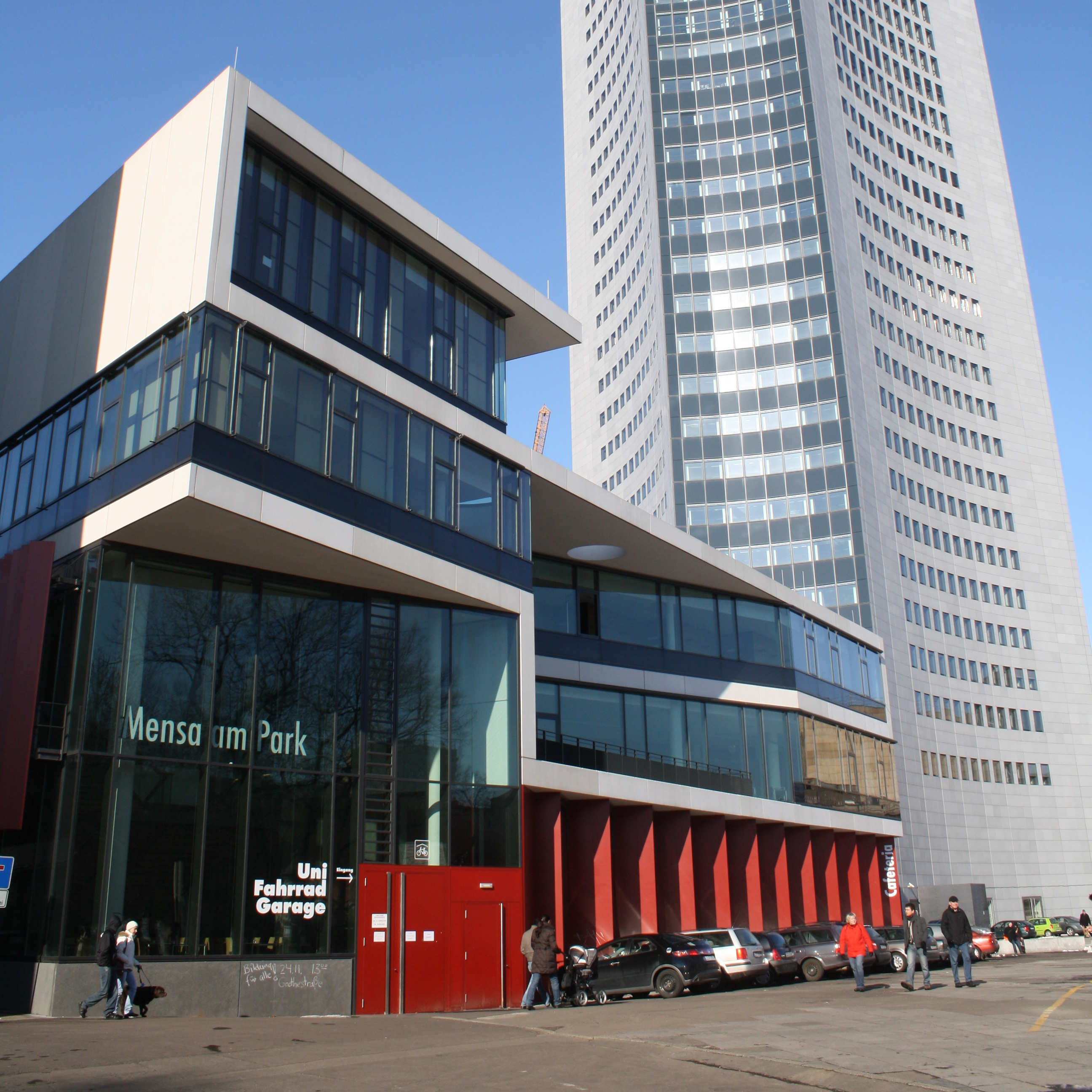 Leipzig University's Mensa am Park (cafeteria at the park). The name refers to its location at Schillerpark in central Leipzig city. The City-Hochhaus (City skyscraper) can be seen in the background.